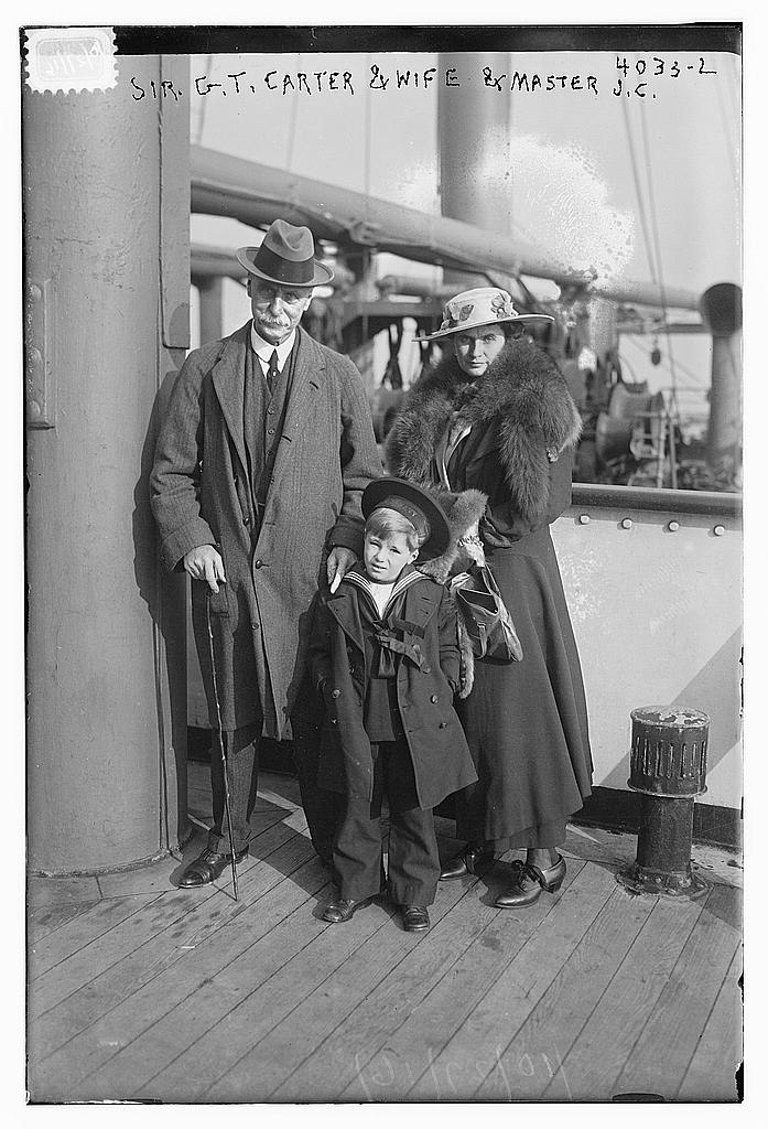 Gilbert Thomas Carter and wife in 1916